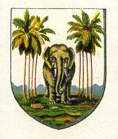 Arms of British Ceylon (1802-1948)